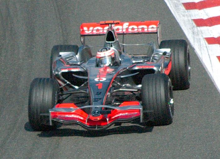 Fernando Alonso driving for McLaren at the 2007 Belgian Grand Prix.